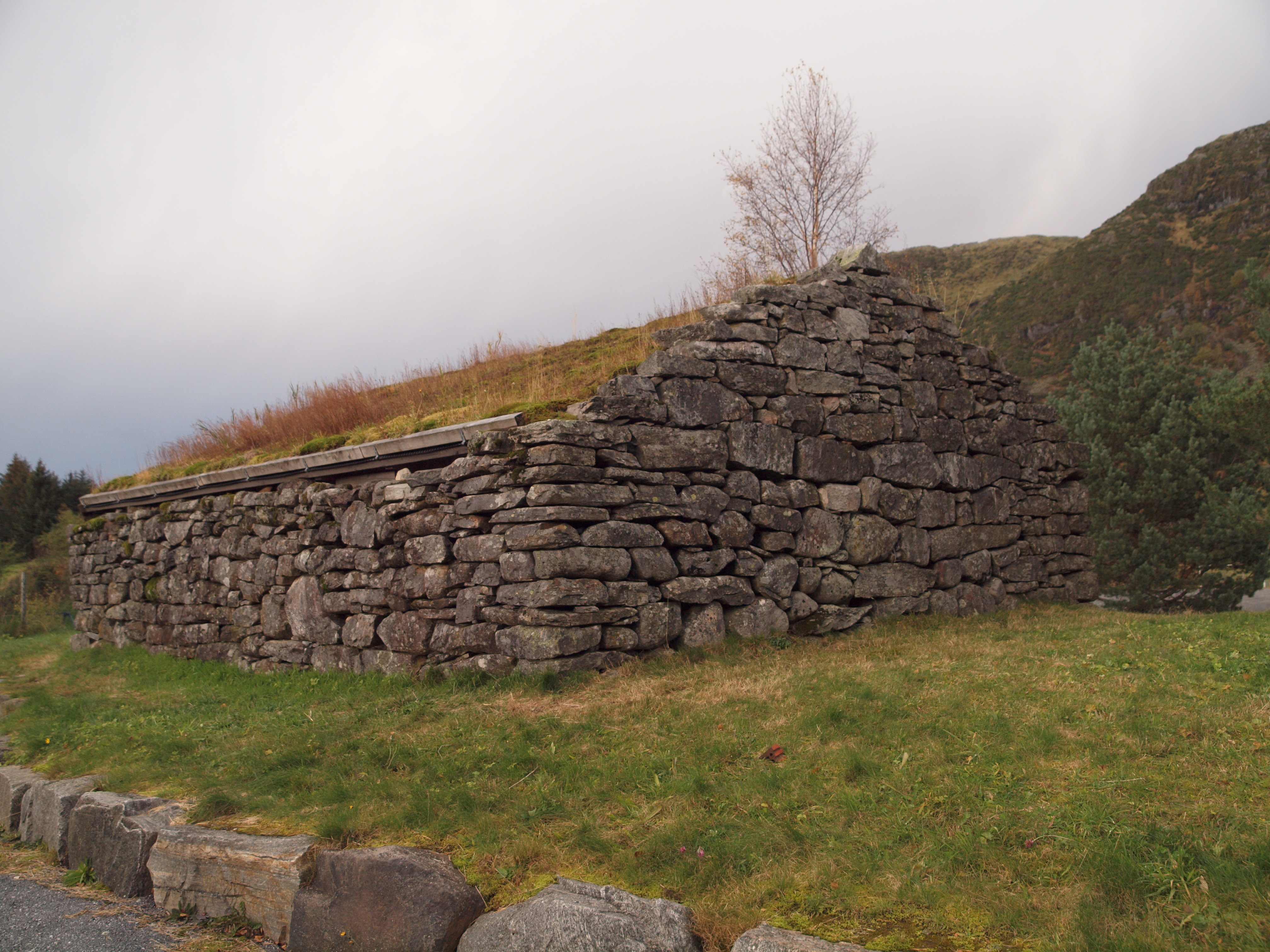 Dalsøyras, Gulen municipality, Sogn og Fjordane county, Norway.